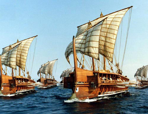 An EDSITEment-reconstructed Greek fleet of galleys based on sources from The Perseus Project.